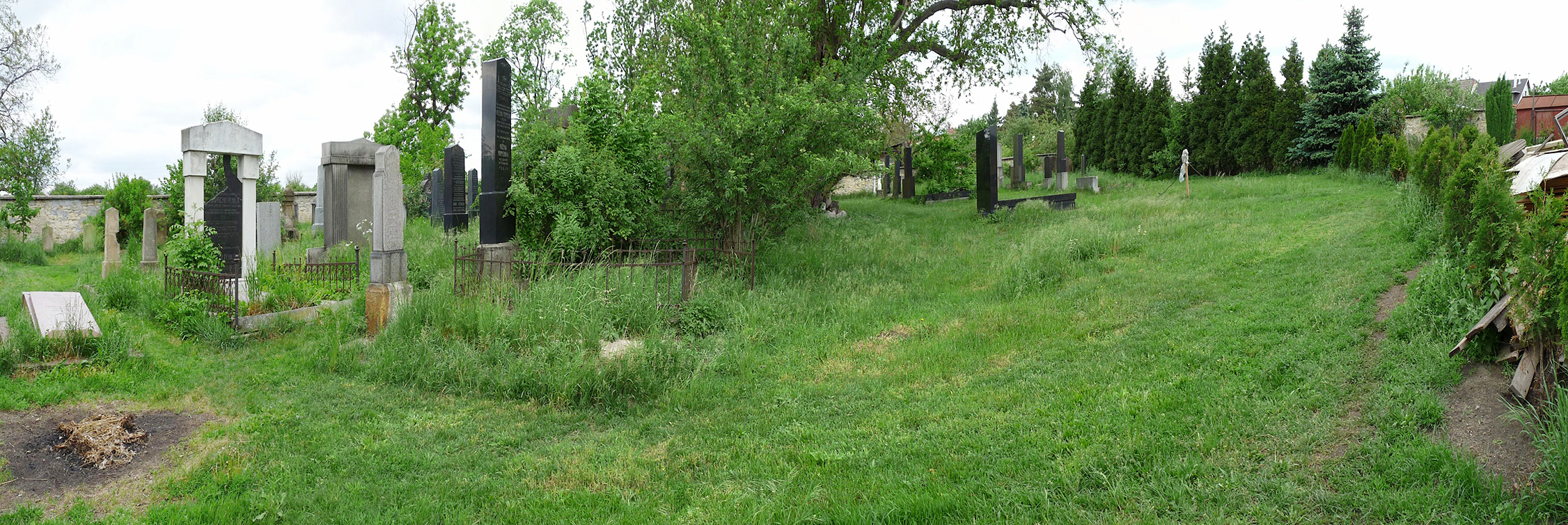 View of the Jewish cemetery in the town of Mělník, Central Bohemian Region, Czech Republic